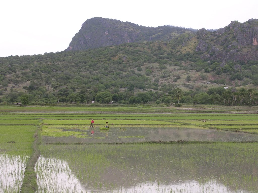 Category:Ricefields at Manatuto with Mt Curi backdrop